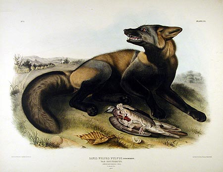 An illustration of a cross fox from The Viviparous Quadrupeds of North America by John James Audubon and John Bachman, originally published in three volumes (1845–1848)